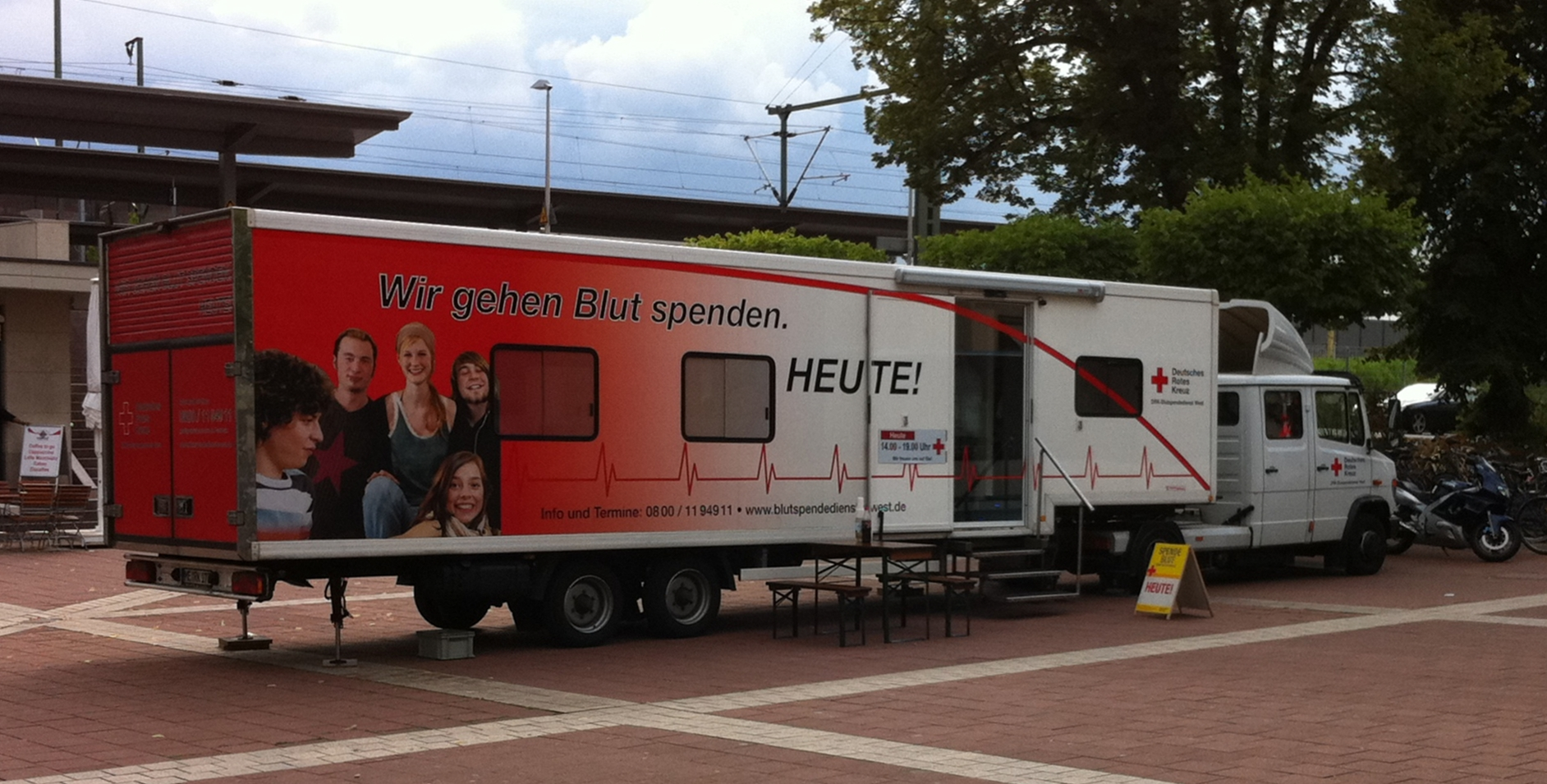 Siegburg, Germany: Bloodmobile of German Red Cross